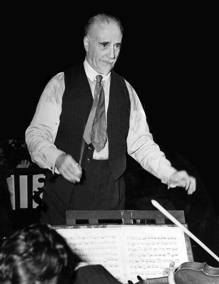 Sir Thomas Beecham rehearsing the Brooklyn Symphony Orchestra (not the present ensemble of that name) in 1948